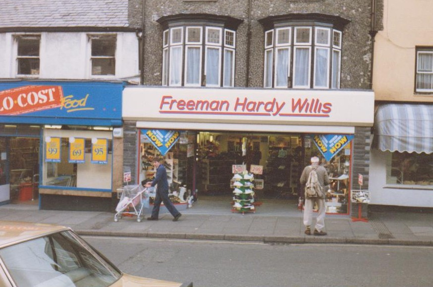 Freeman Hardy Willis, Branch 0440 Porthmadog in 1987. Subsequently bought by Stead & Simpson in 1996 and as of April 2014 trading as Shoe Zone.